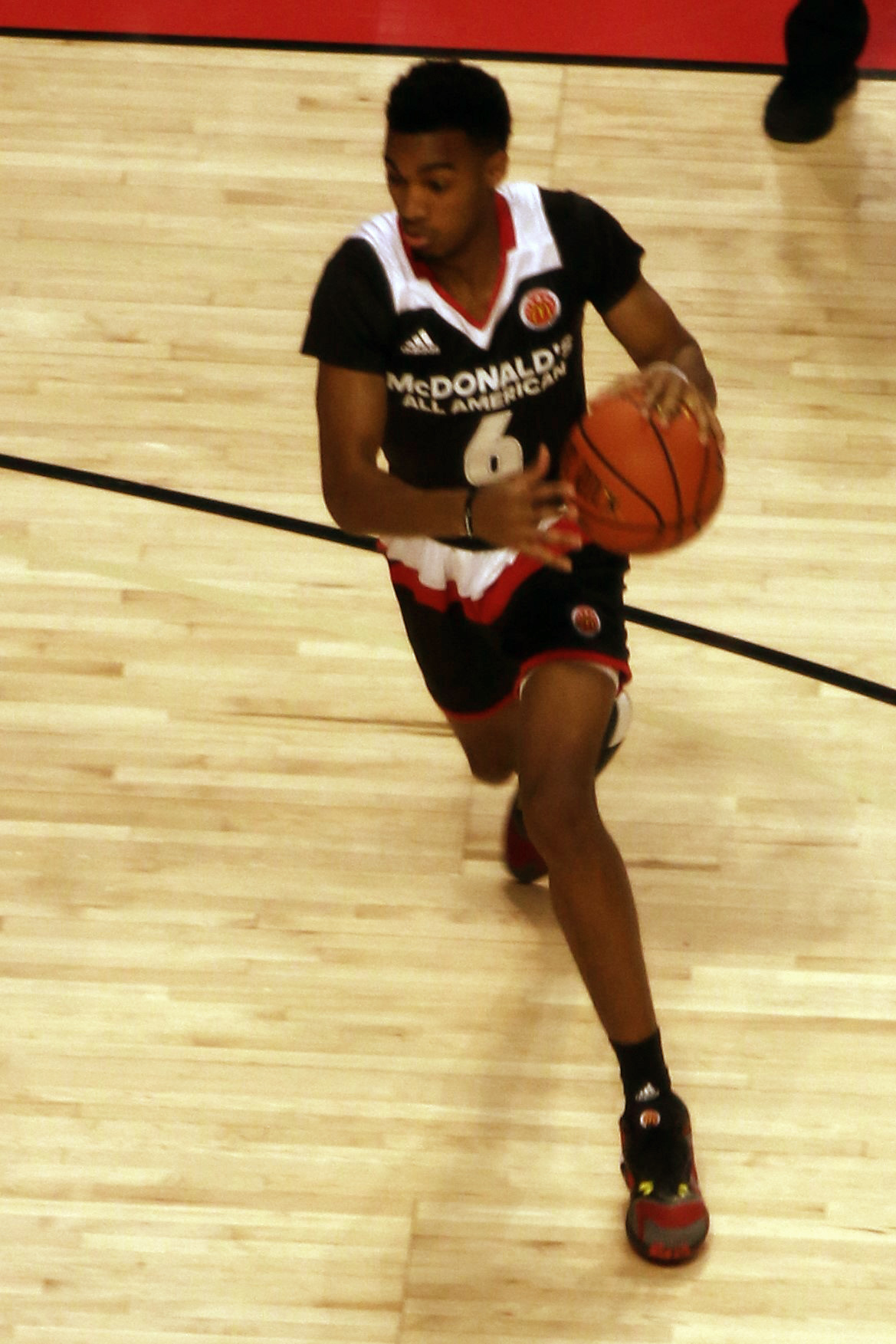 Terrance Ferguson at the w:2016 McDonald's All-American Boys Game